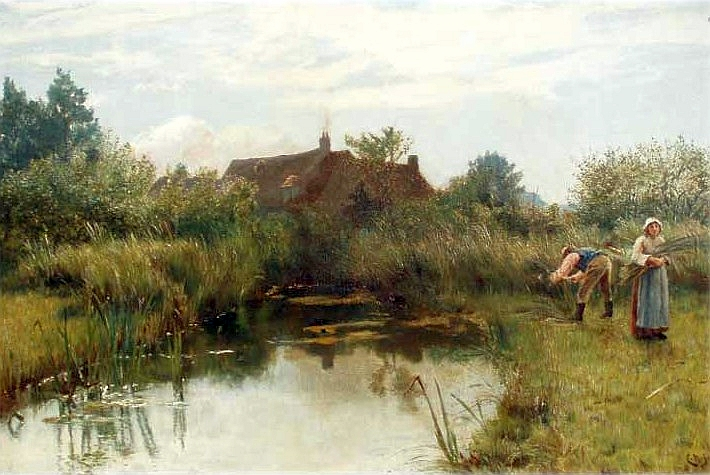 The Reed Cutters